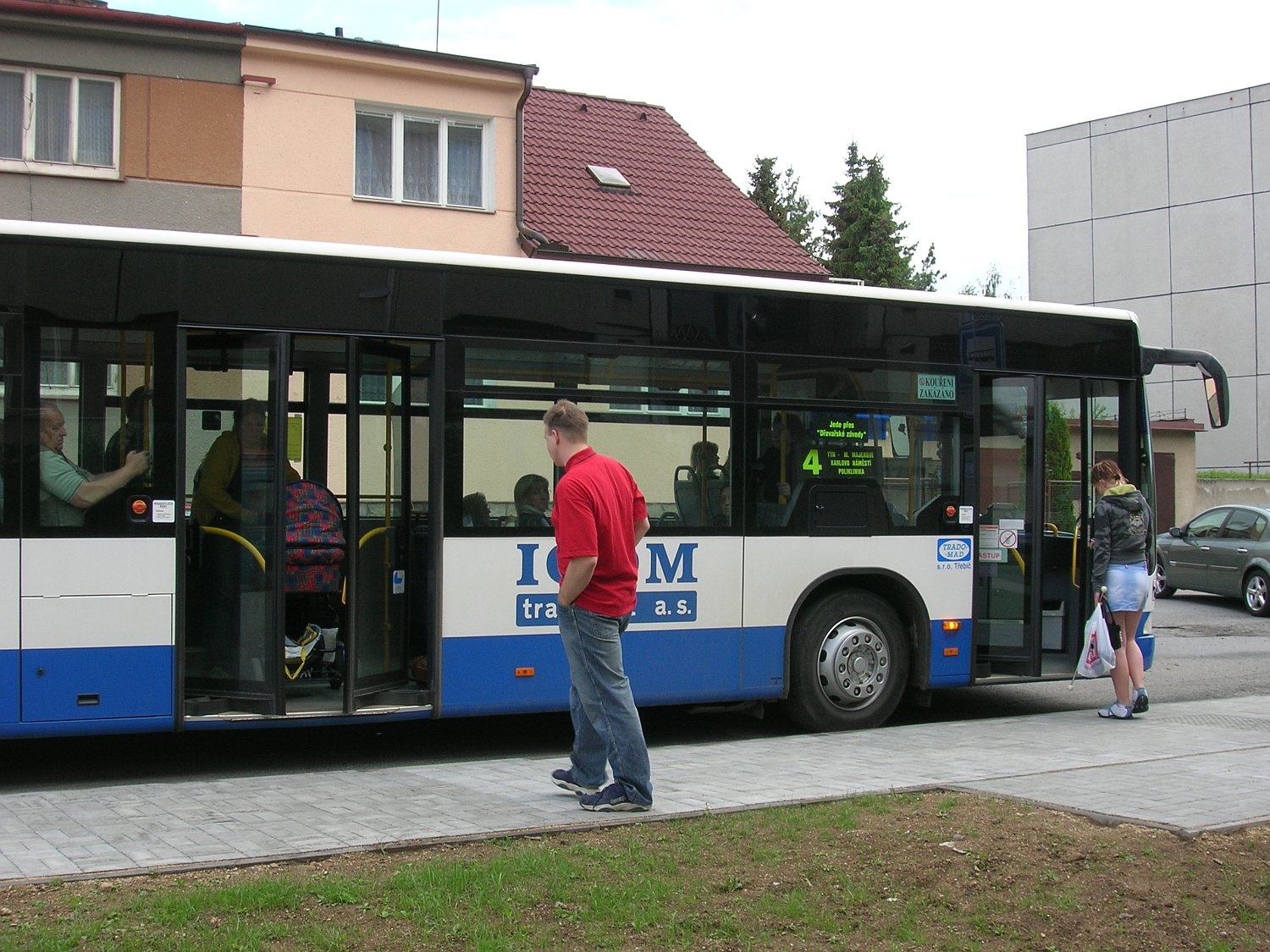 Urban mass transportation bus in , bus stop Augustina Kratochvíla